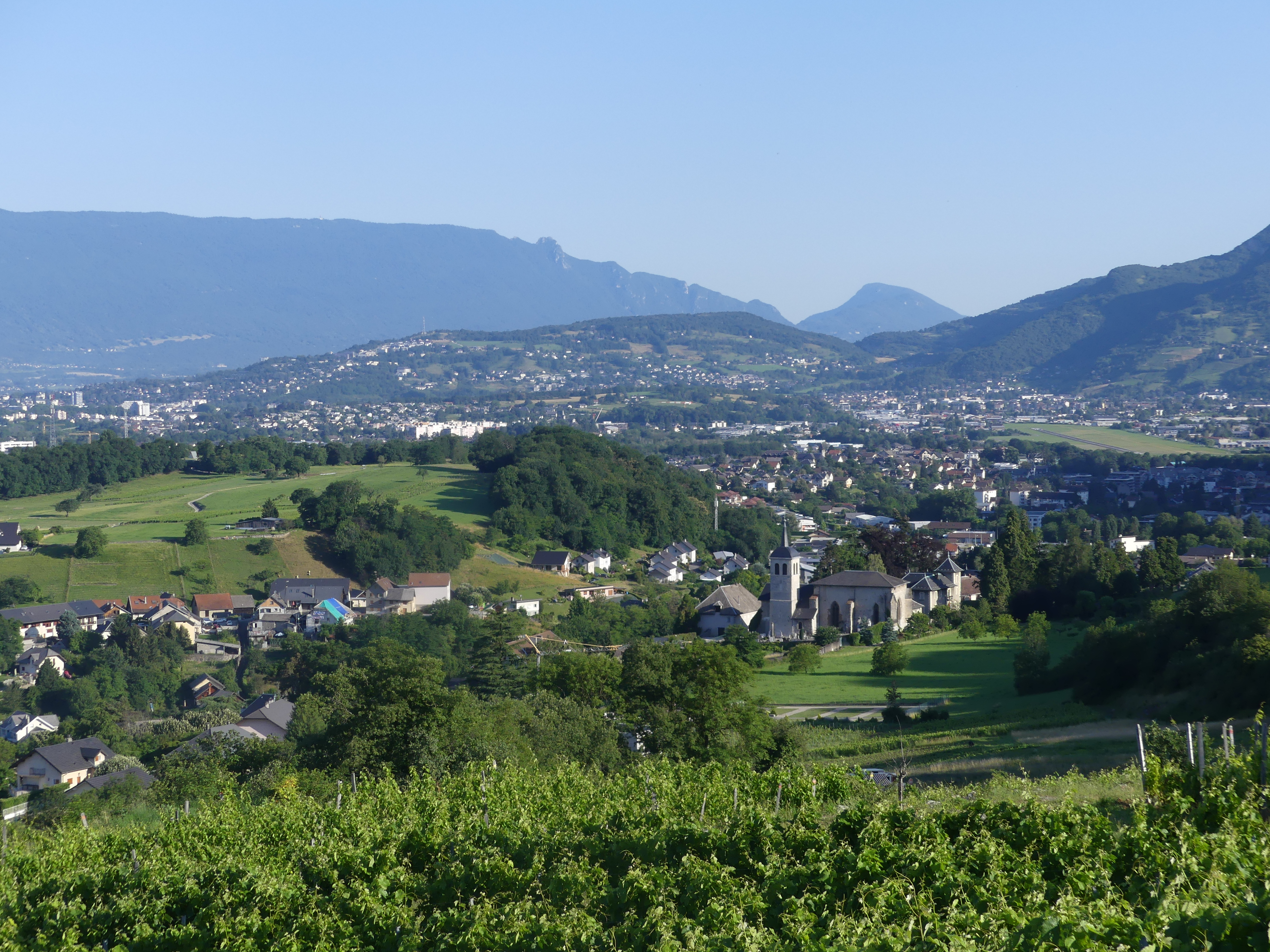 Sight, in the early morning from the heights of Chignin vineyards, of Saint-Jeoire-Prieuré village at the South of Chambéry, Savoie, France.